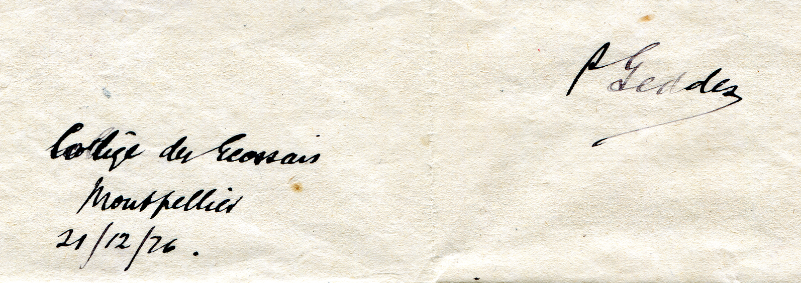 The signature block from a personal note written by Patrick Geddes.